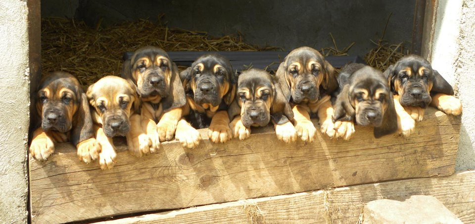 bloodhounds puppies